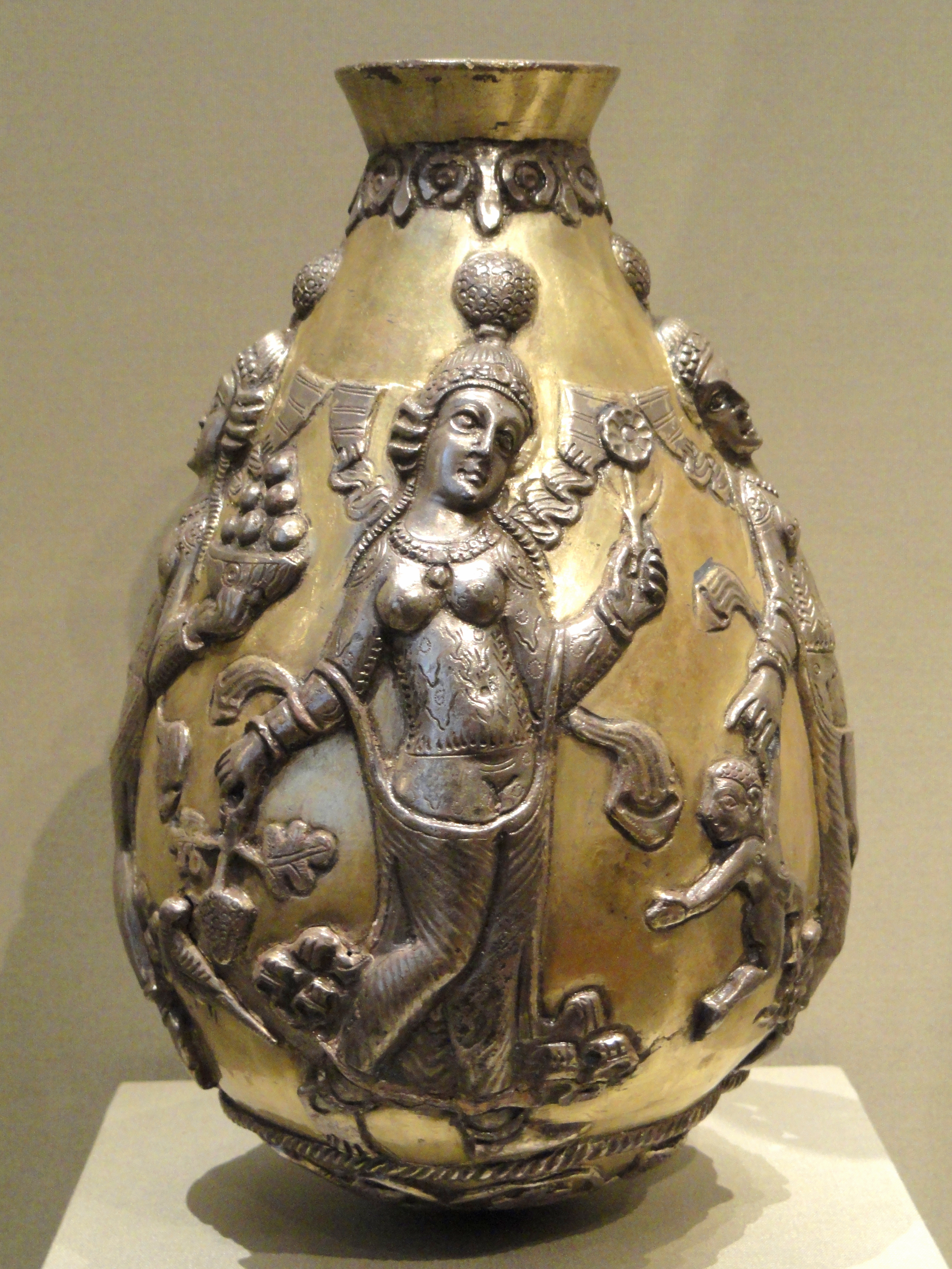 Exhibit in the Cleveland Museum of Art, Cleveland, Ohio, USA. This artwork is old enough so that it is in the public domain.